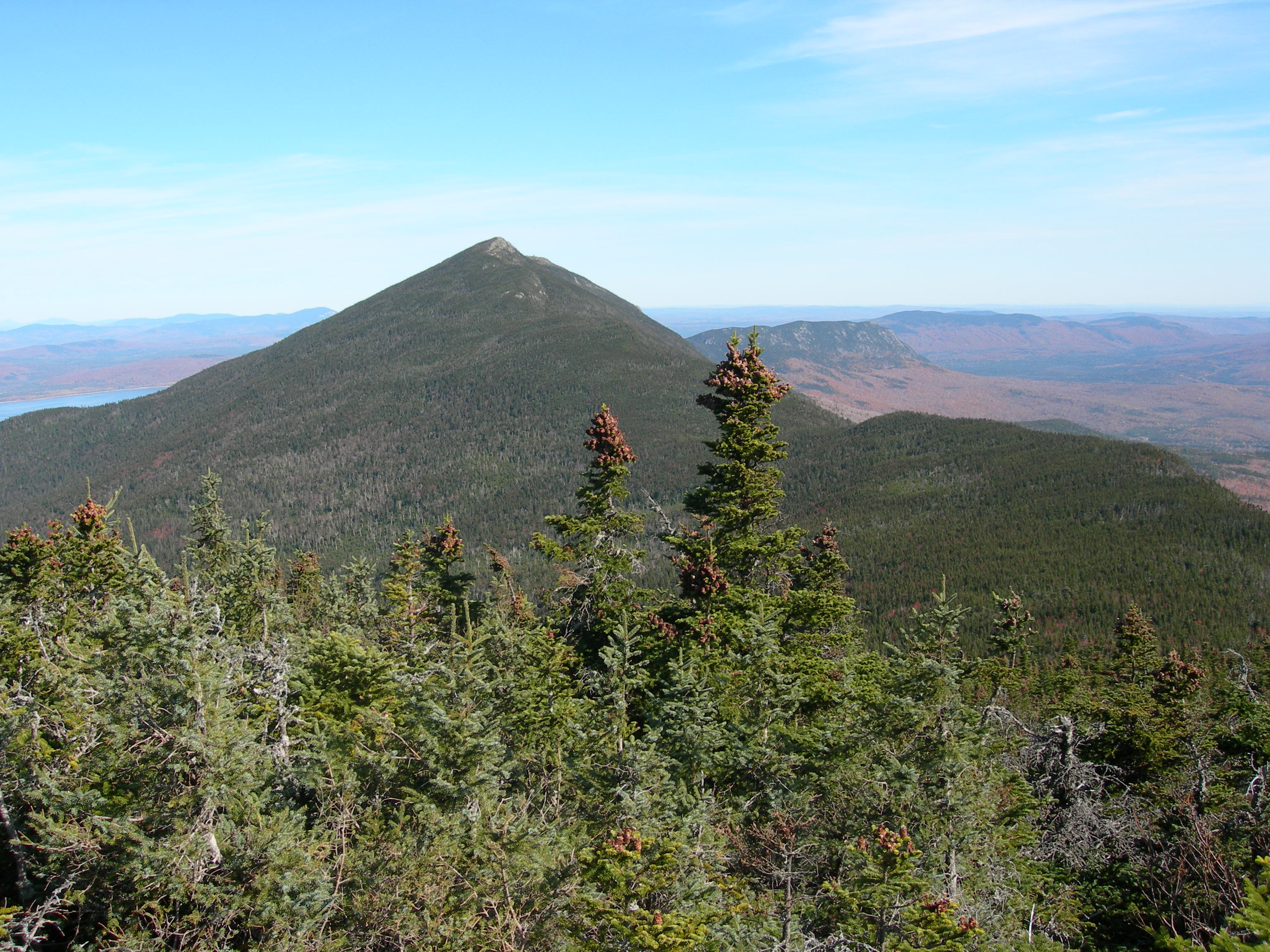 Mt. Bigelow, West Peak, Maine, with mixed Balsam Fir Abies balsamea - White Spruce Picea glauca forest in foreground.